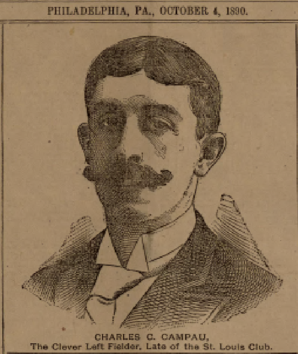 Drawing of Charles C. Campau